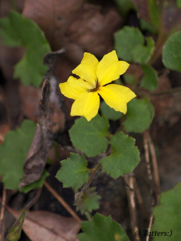 Goodenia rotundifolia Family: Goodeniaceae Prostrate to erect perennial herb to 50 cm high Common name: Star Goodenia Australian native (QLD and NSW) Location: Cania Gorge National park, Australia